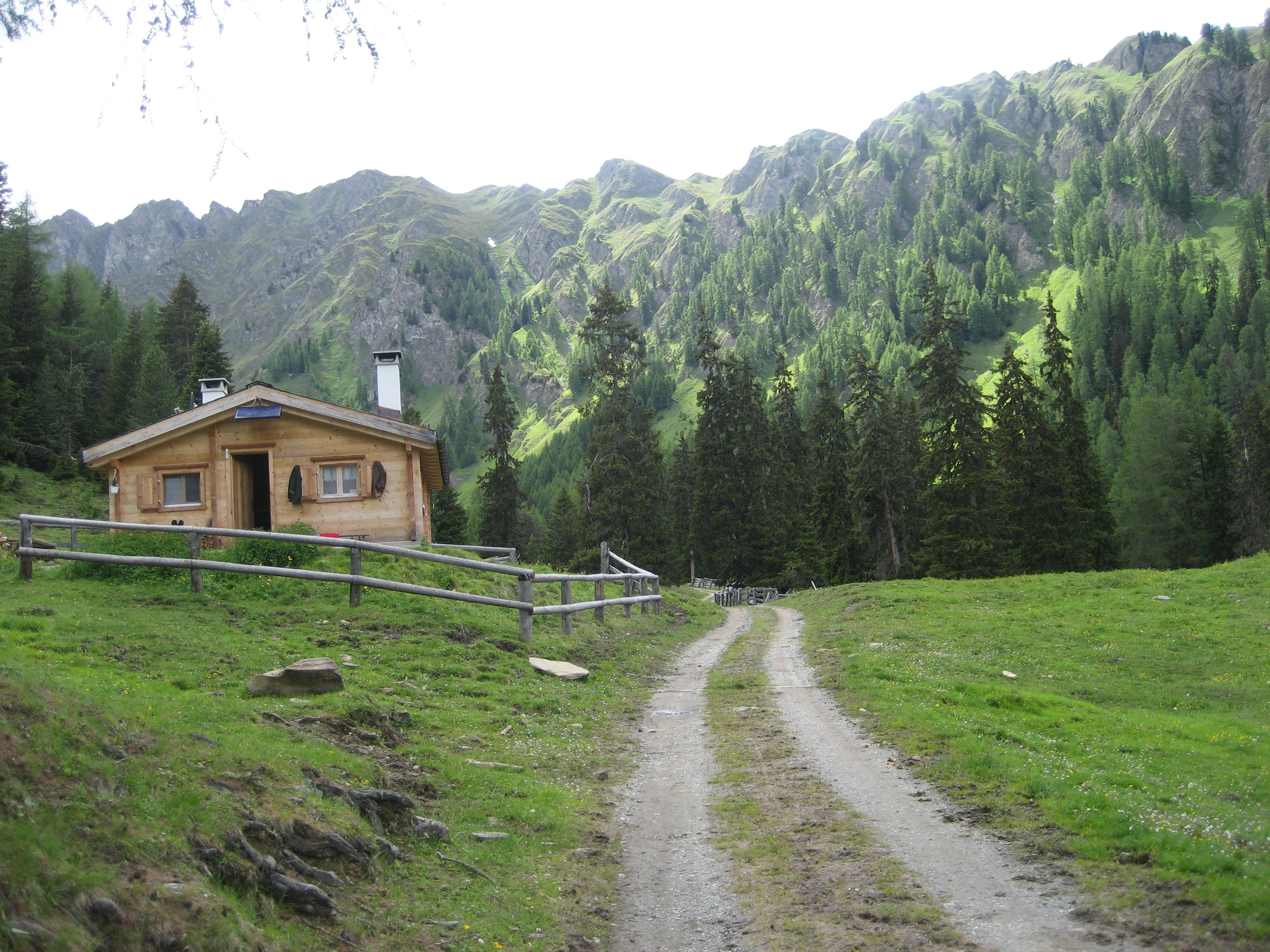 Plan God Nair in Val Sampuoir, Tschlin GR, Switzerland. Direction Pizzet.